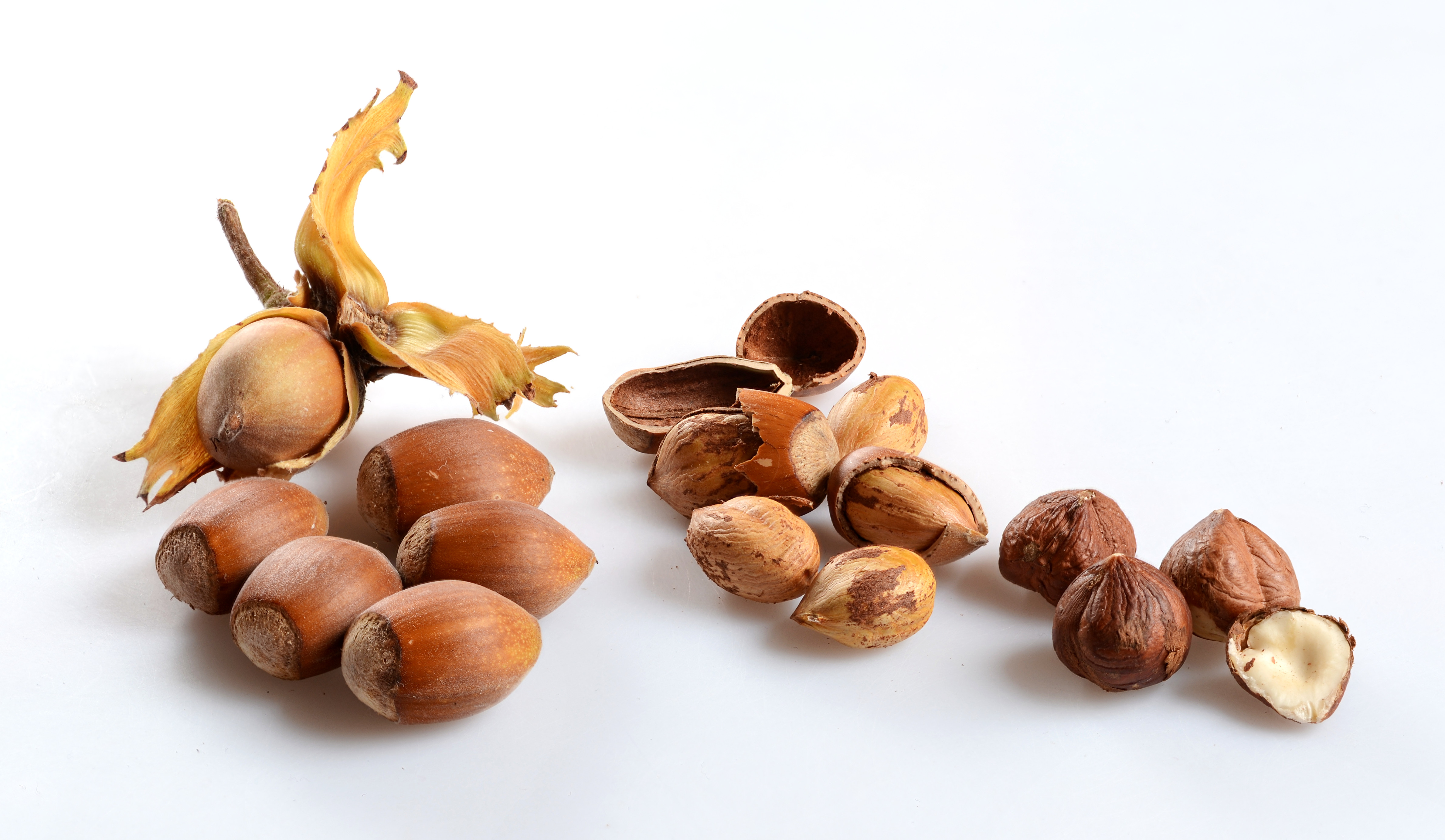 Hazelnuts (Corylus avellana) in different states: Ripe, opened, and dried. This picture is a stack of 10 single images, combined with CombineZP for better depth of field. The single images have been taken with a Nikon D7000 and a Sigma 70 mm f/2.8 macro lens at 1/200 s and f/8, with two hotshoe flashes: One to the right, with an umbrella, and one in the rear left behind some milky glass for the highlight.